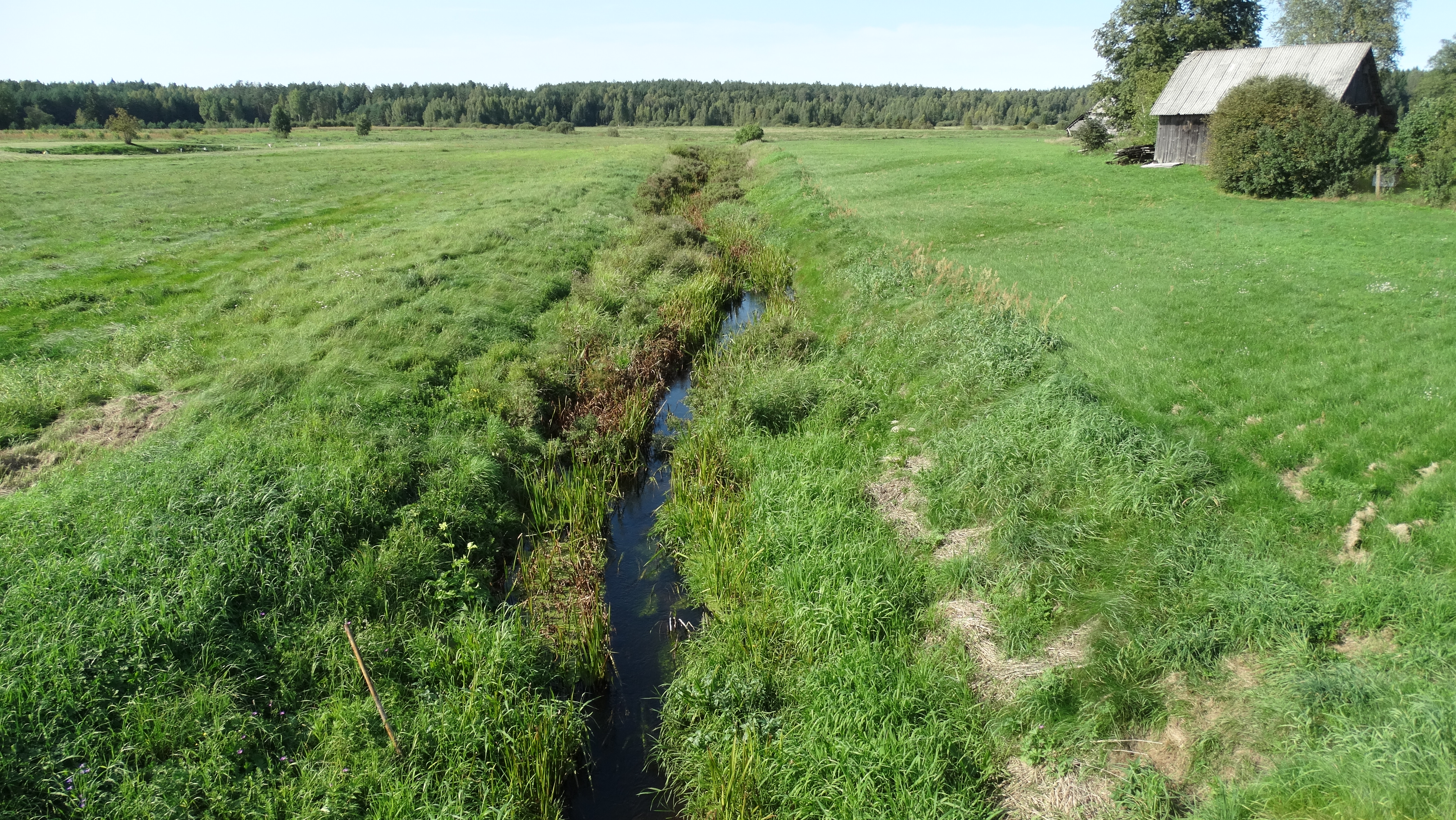 Mera River in Kasčiukai, Švenčionys District, Lithuania